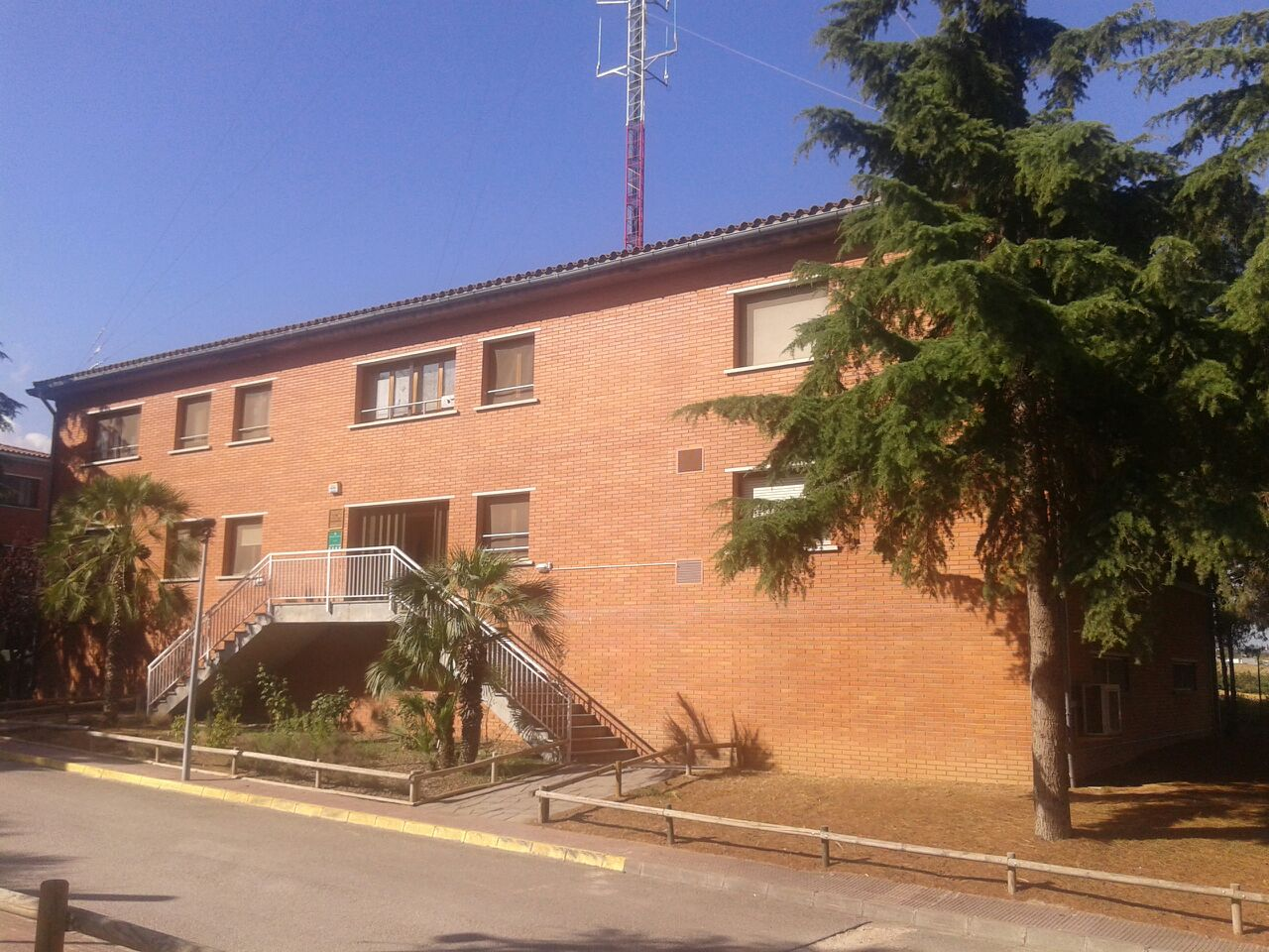 Headquarters of the Ranger Corps of the Government of Catalonia